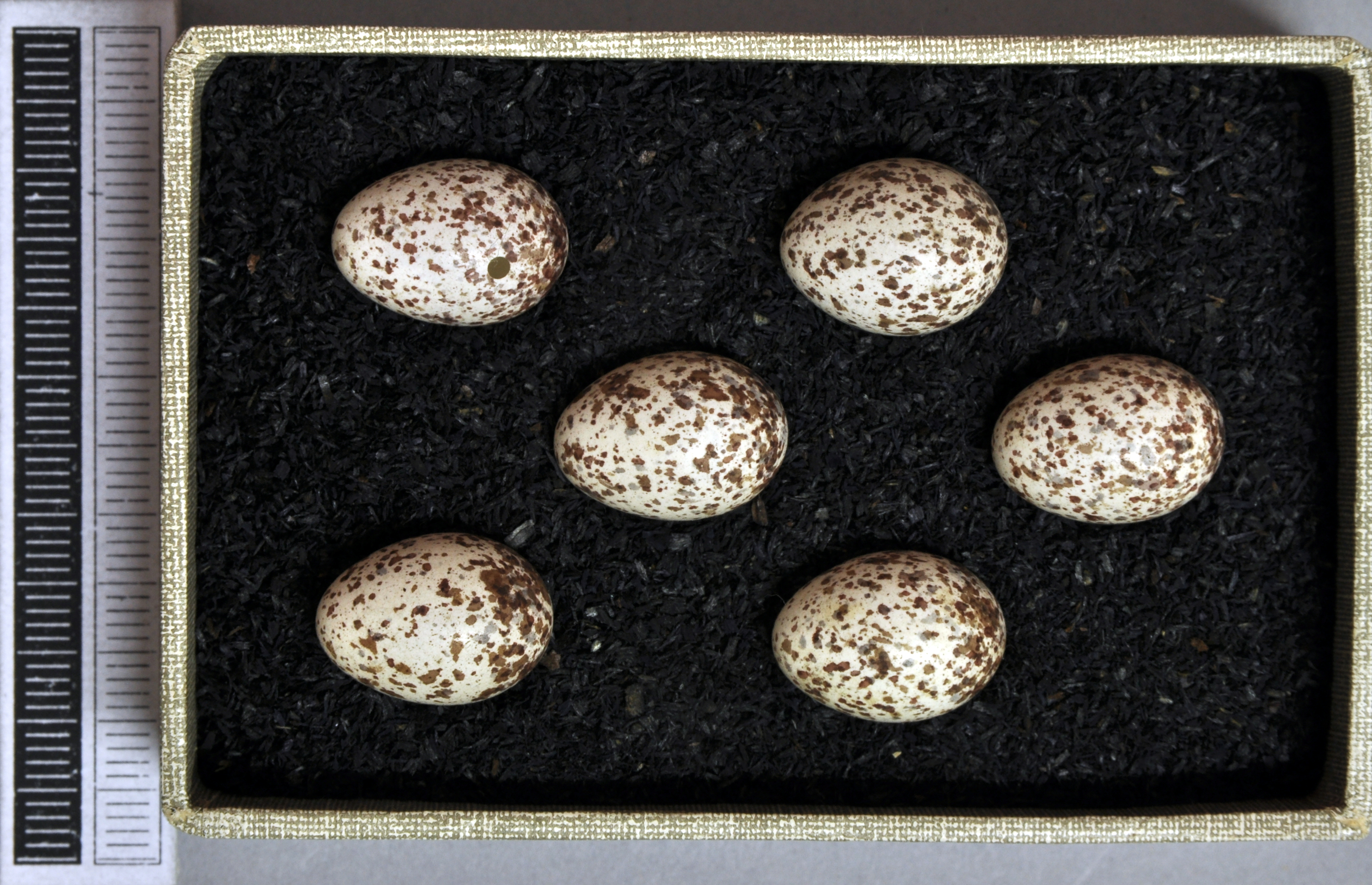 Wood warbler Phylloscopus sibilatrix , egg, Coll. Museum Wiesbaden